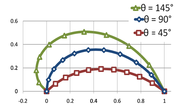 Cannonball trajectories on carousel for three angles of launch